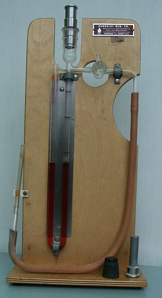 Blain instrument for measurement of specific surface of powders